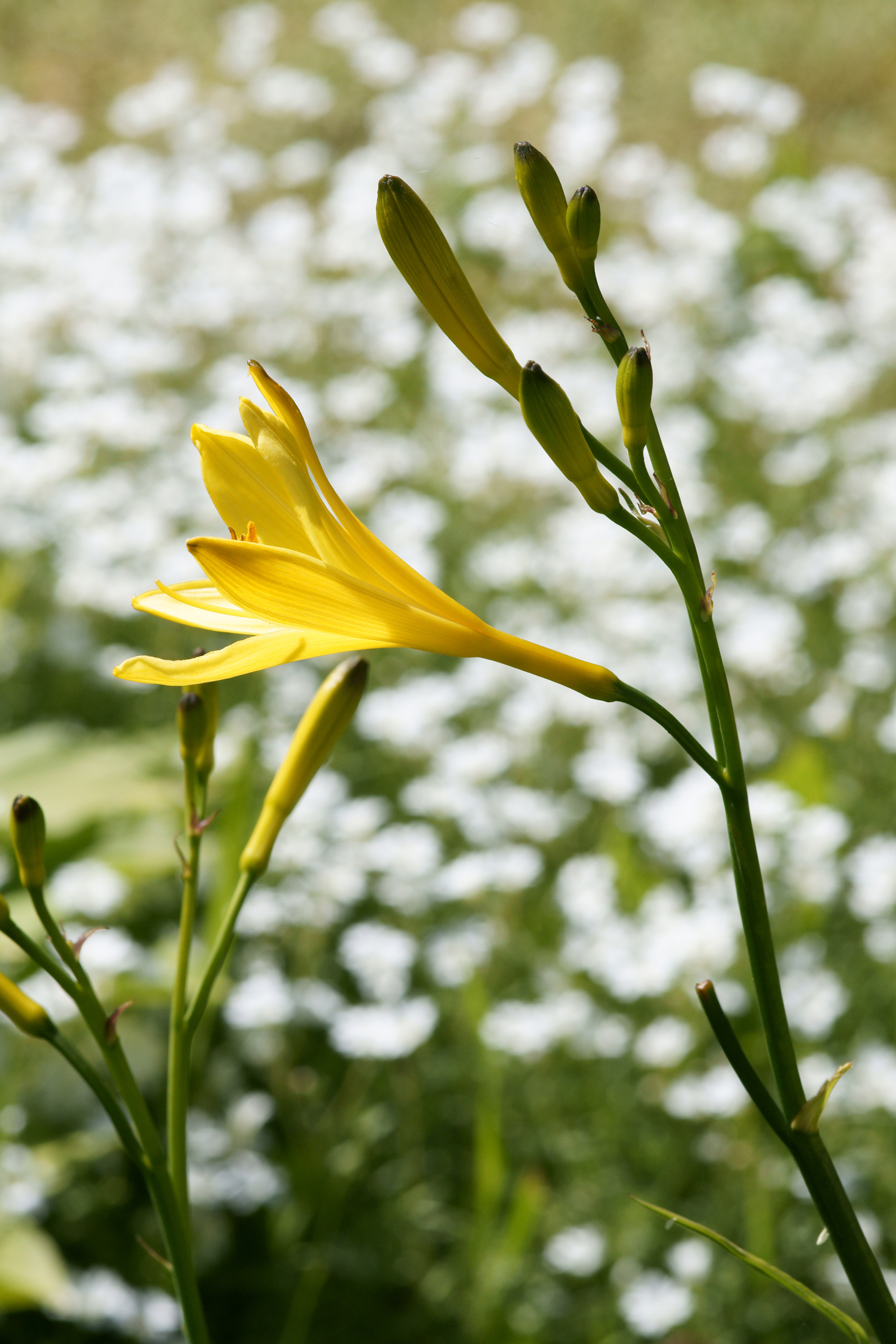 Daylily, Hemerocallis lilioasphodelus